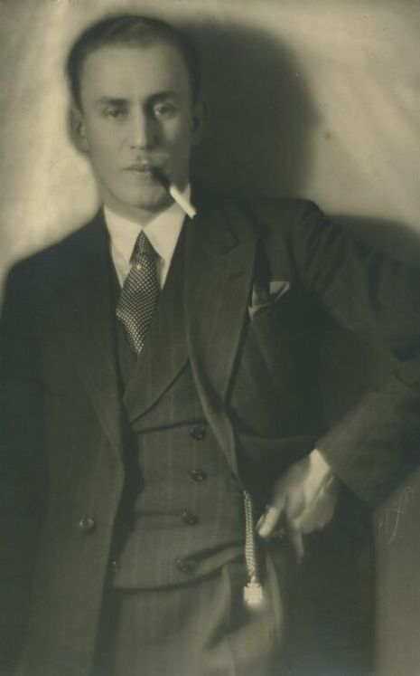 Finnish author Olavi Paavolainen.